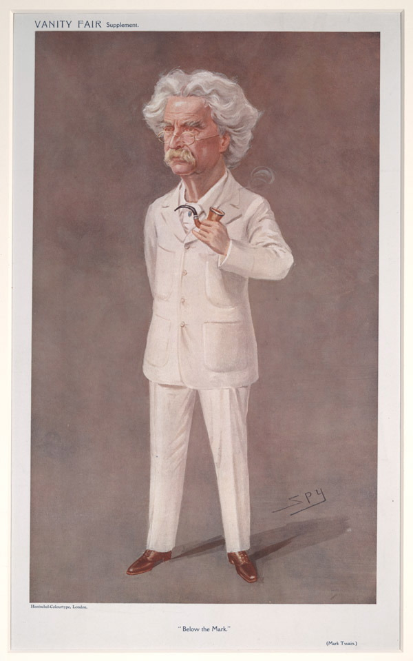 Men of the Day No. 1118: Caricature of SL Clemens. Caption read "Below the Mark".